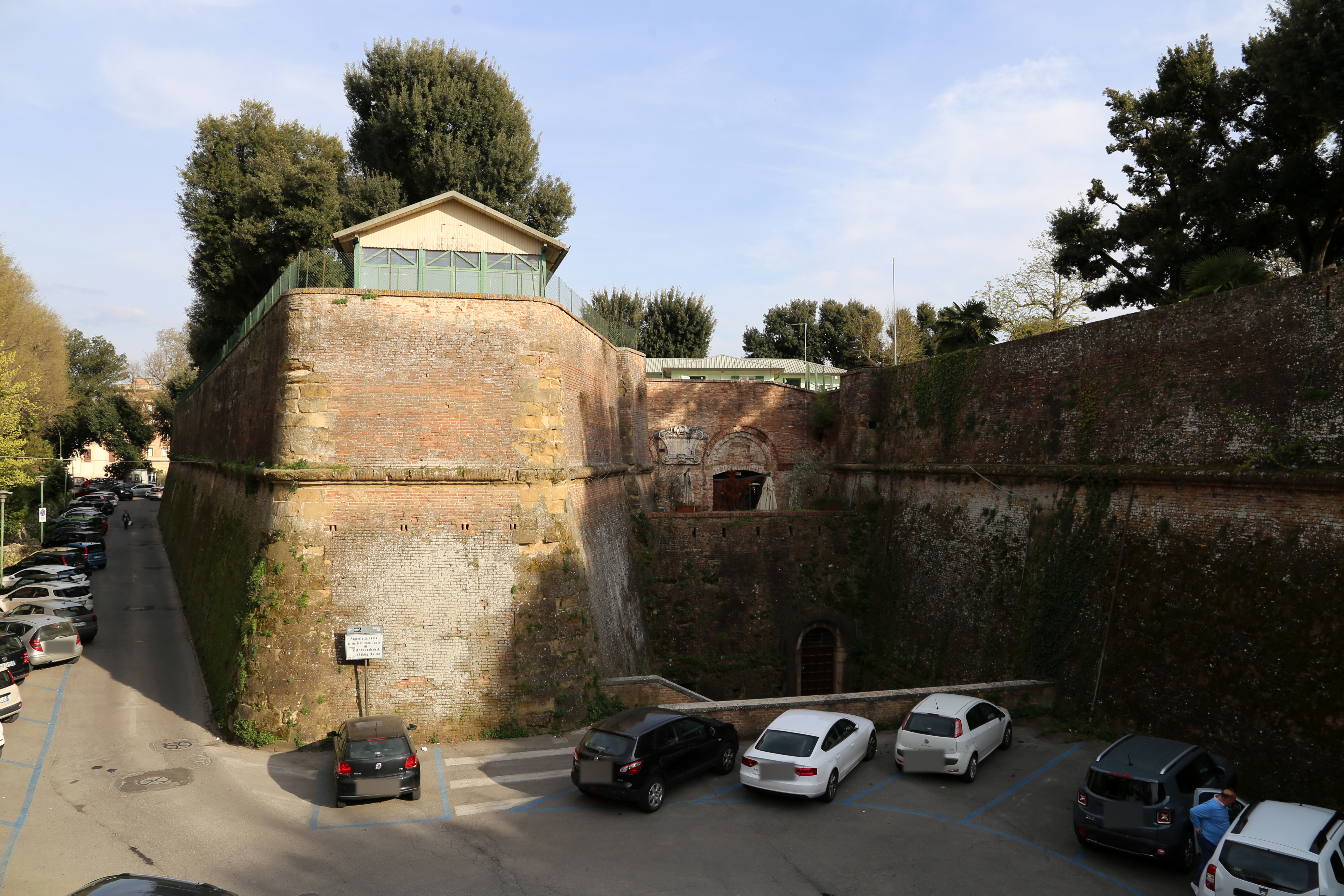 Fortezza Medicea (Siena)